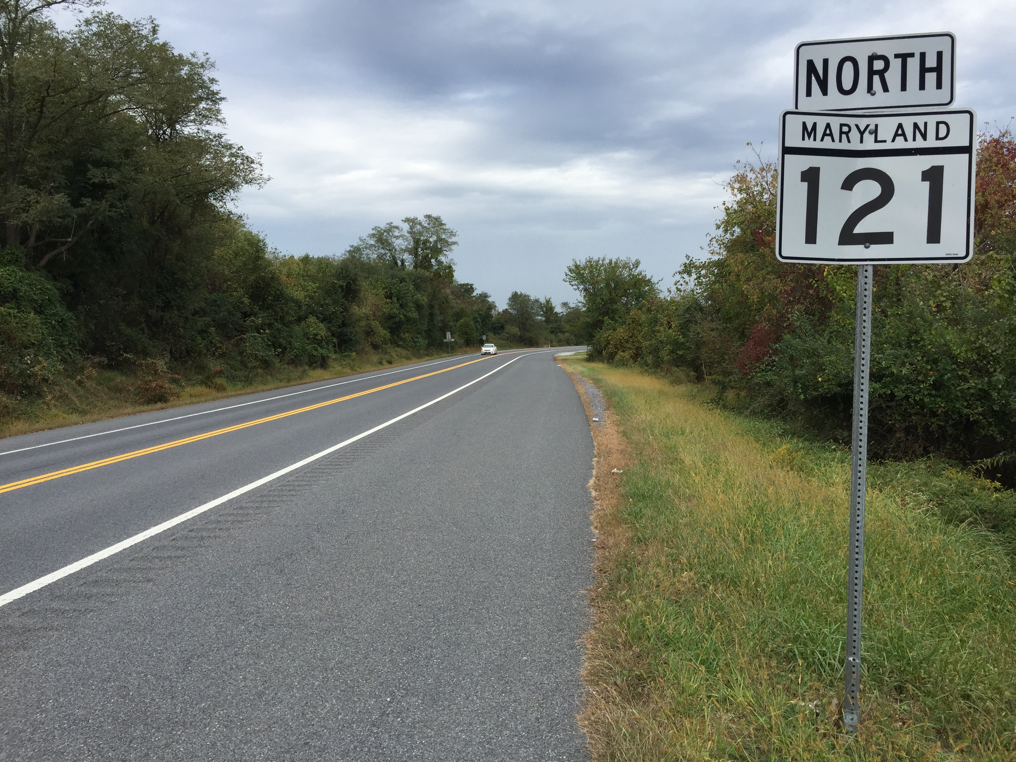 View north along Maryland State Route 121 (Clarkburg Road) at Maryland State Route 117 (Barnesville Road) in Boyds, Montgomery County, Maryland